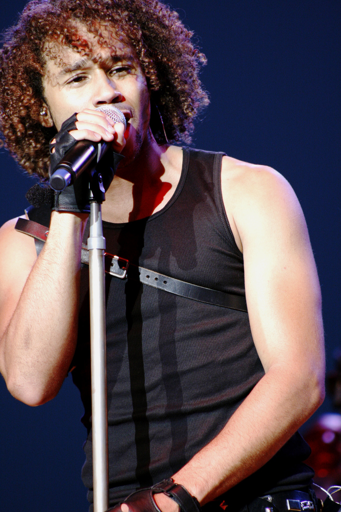 Singer Corbin Bleu From Brooklyn, New York City.